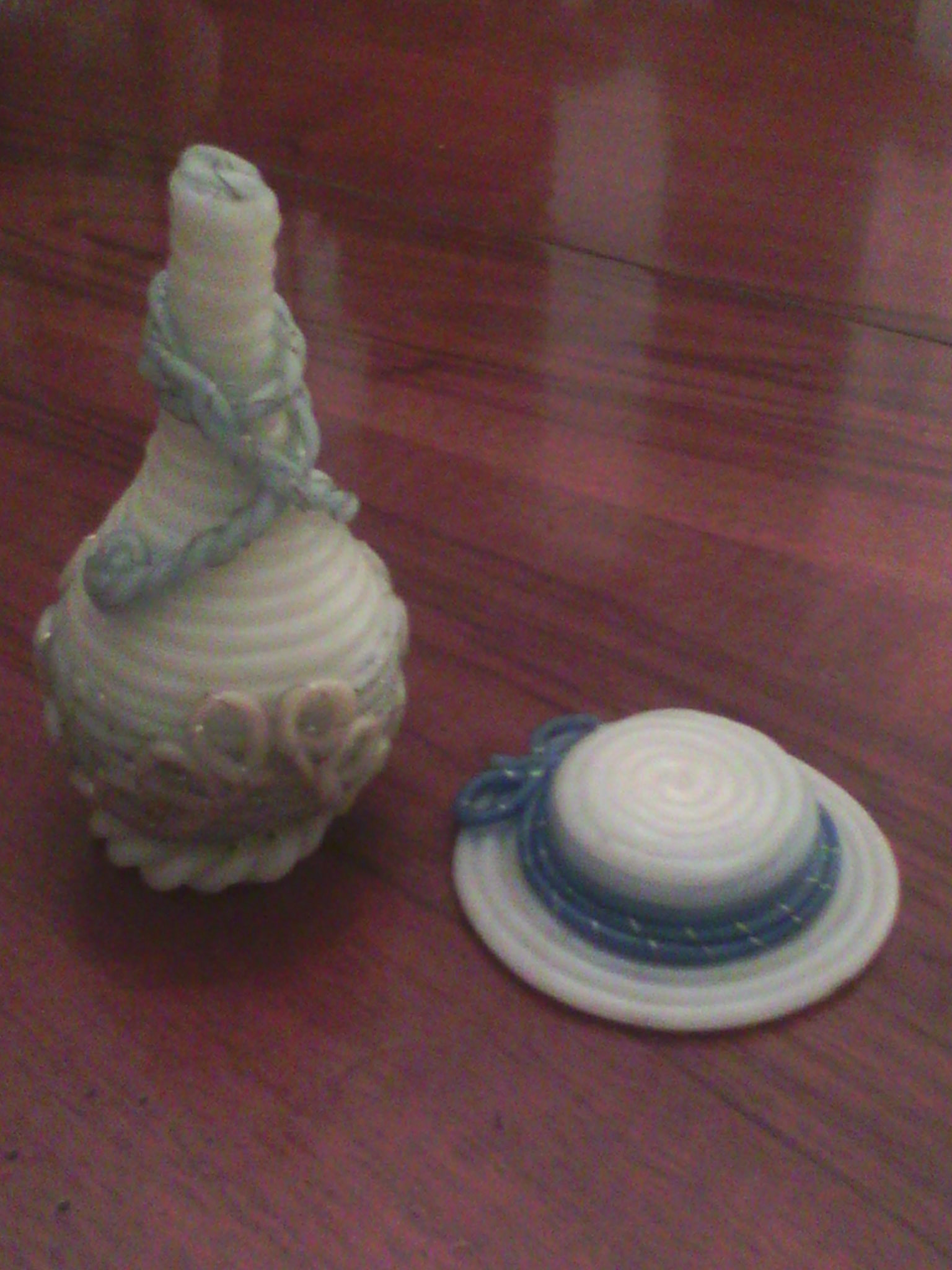 Officieu, traditional ligurian candle